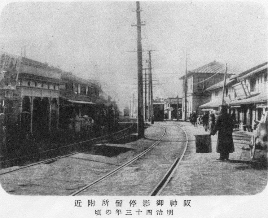 Mikage Station, Hanshin Electoric Railway, 1910.